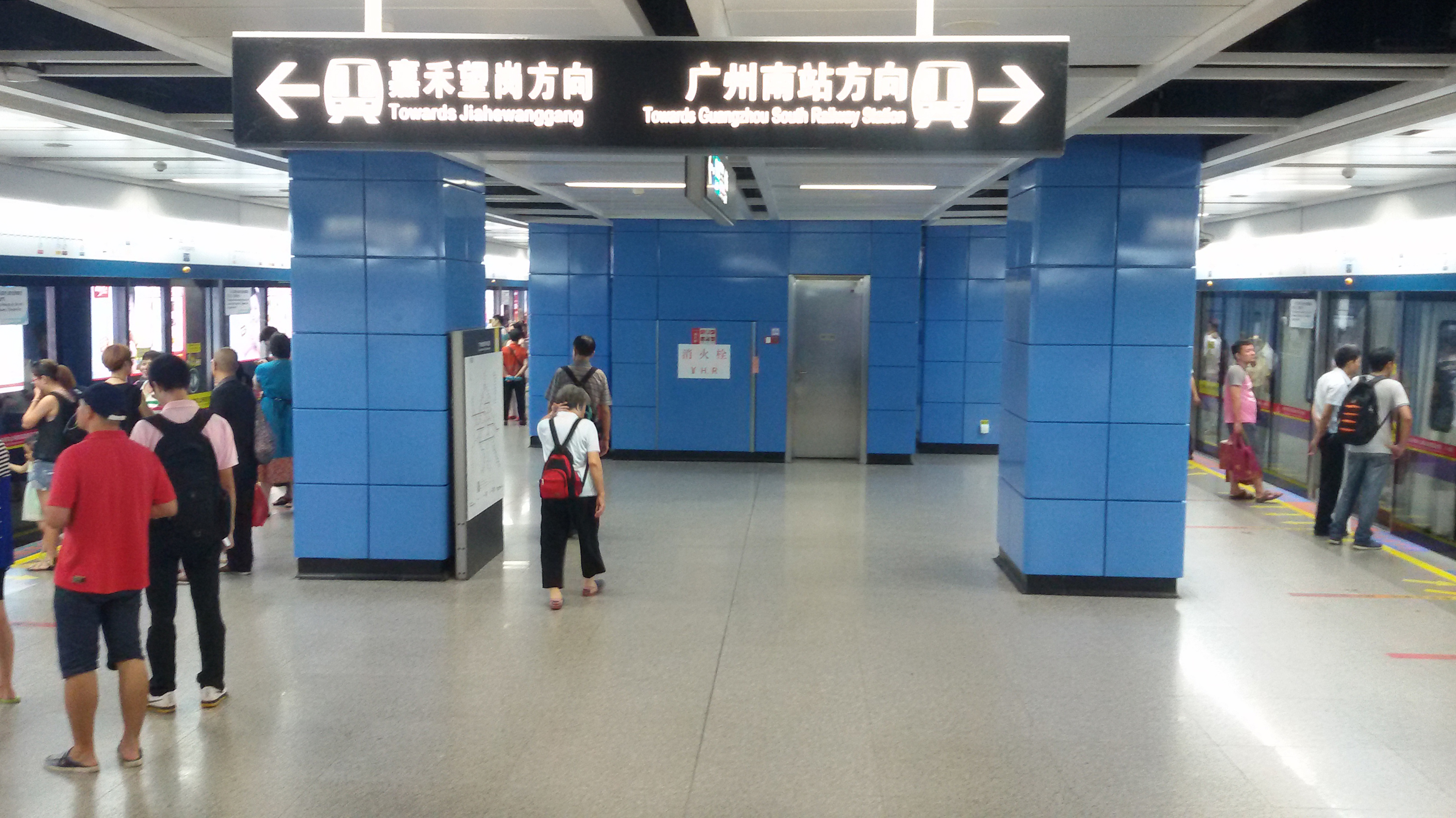 Platform for Changgang Station at Line 2 in Guangzhou Metro.